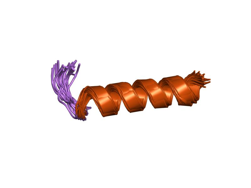 Cartoon representation of the molecular structure of protein registered with 1lbj code.